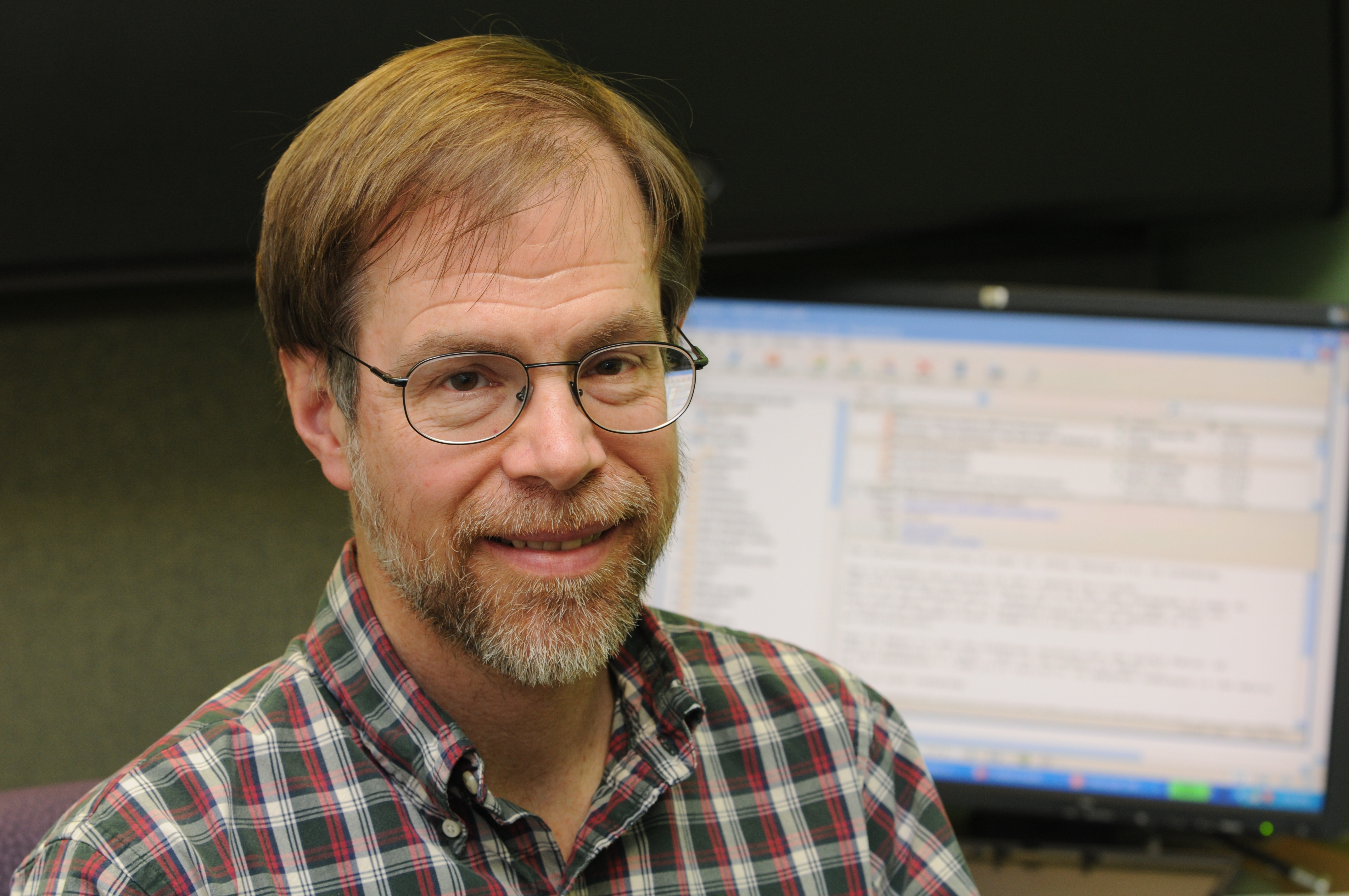 Computer scientist James Demmel, in his office at University of California, Berkeley in the Par Lab in 2010.